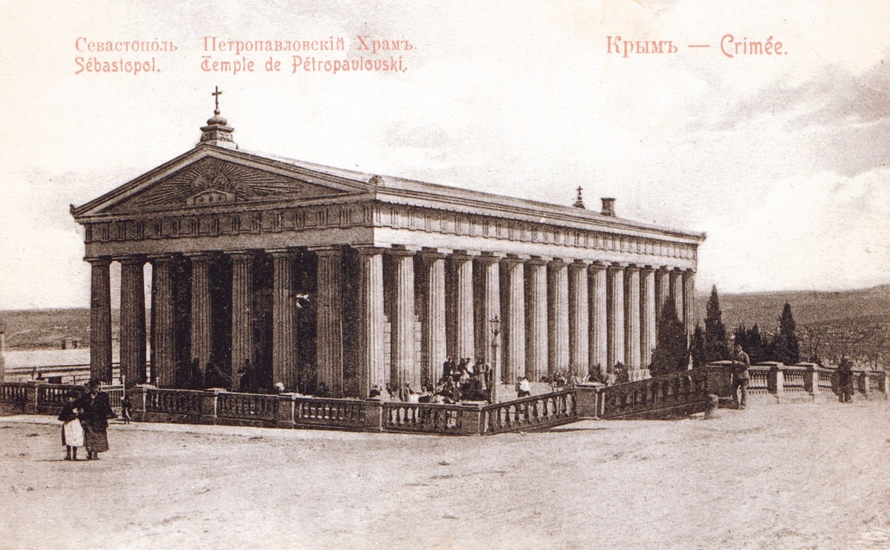 Peter and Paul Cathedral (Sevastopol)